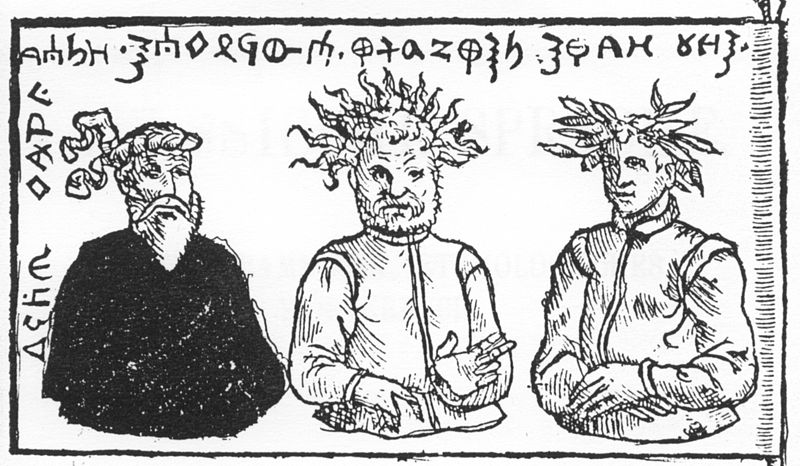 Flag of mythical Prussian king Widewuto, by Caspar Hennenberger after a description by Simon Grunau (16th century).